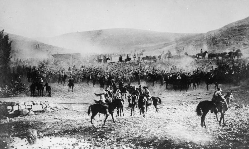 General view of 4,500 prisoners captured by the 2nd Australian Light Horse Brigade during the operations at Amman in Syria.